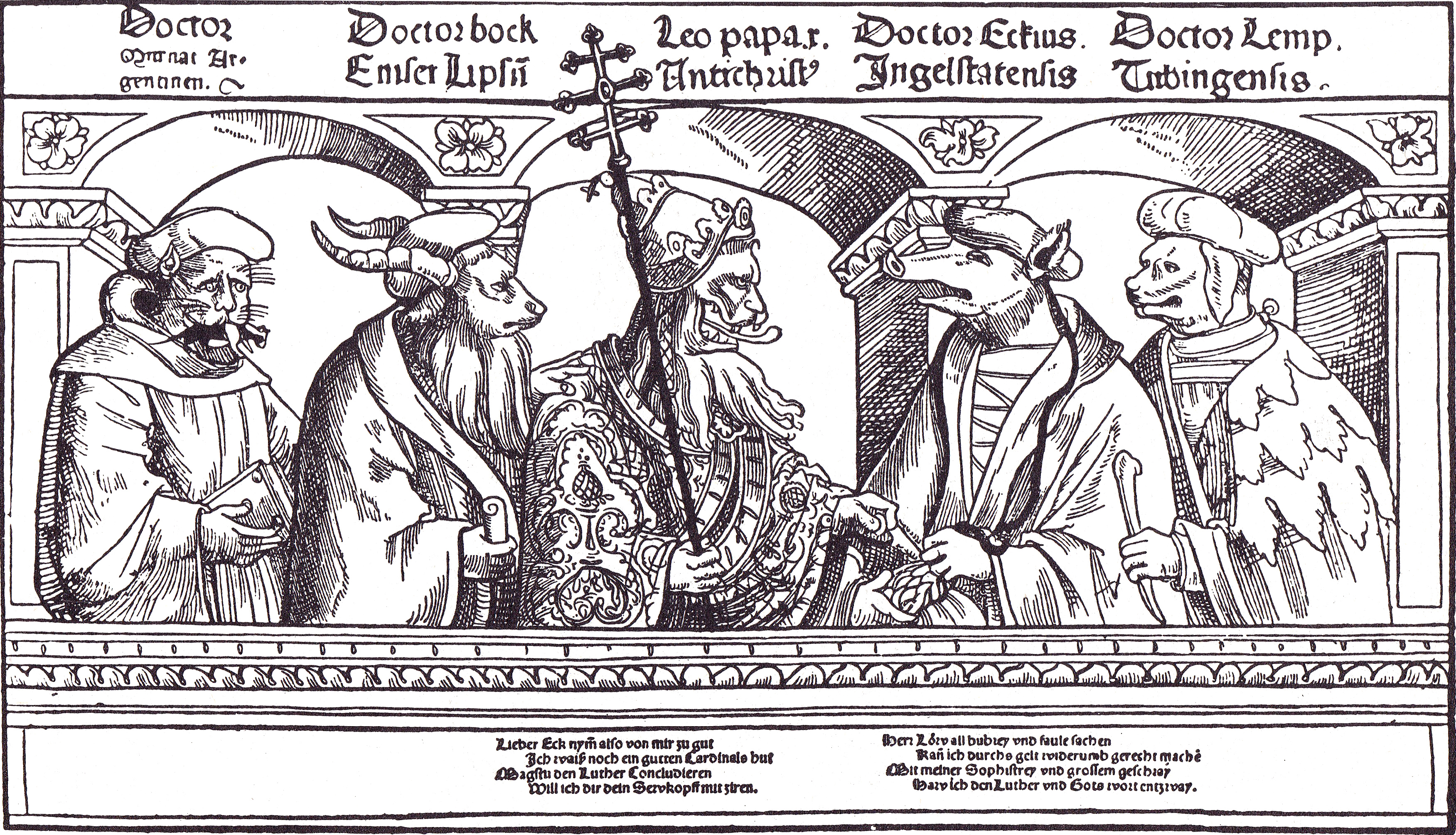 Satire over Eck, Lemp, pope Leo and others.